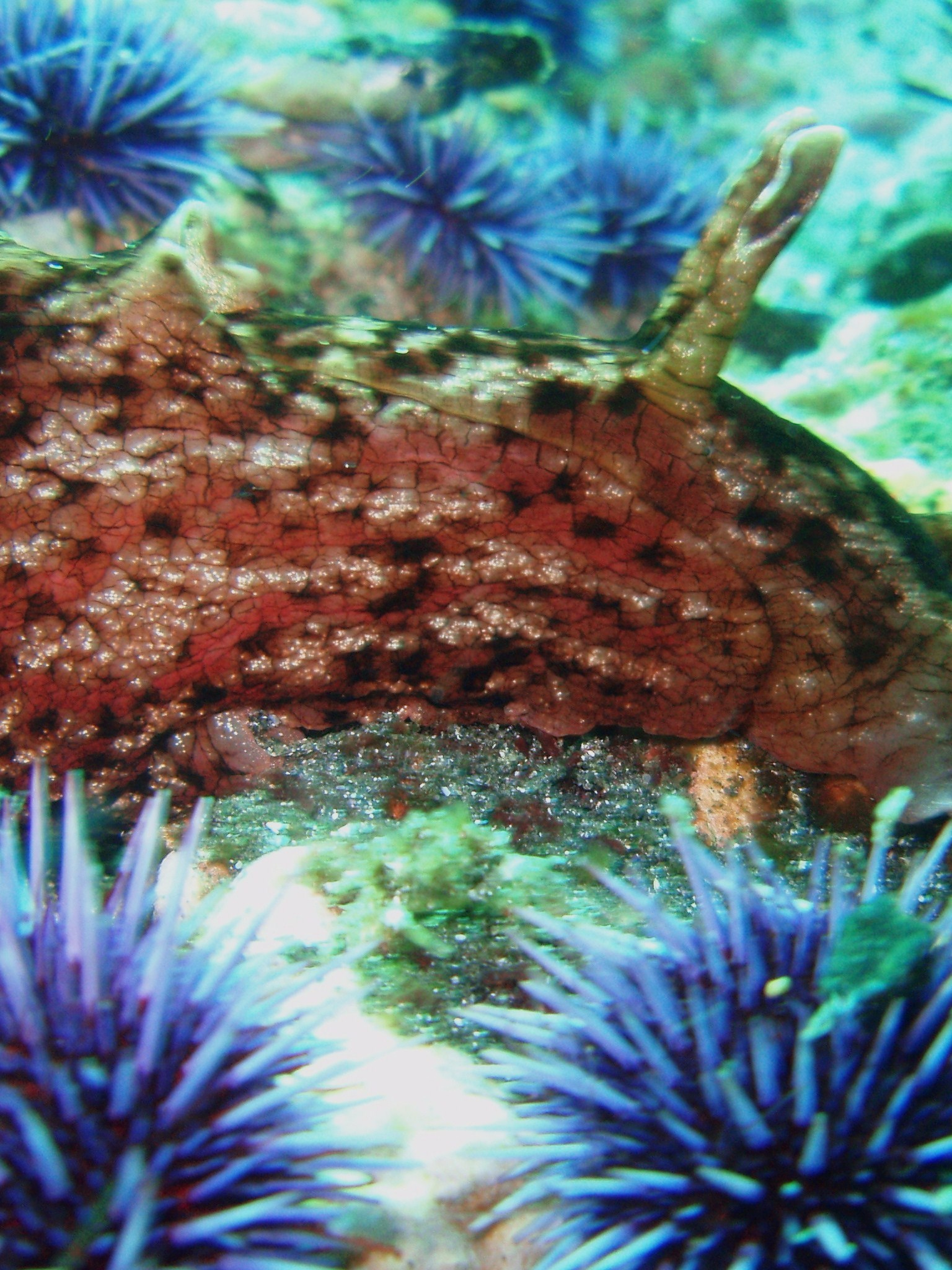 California sea hare (Aplysia californica)